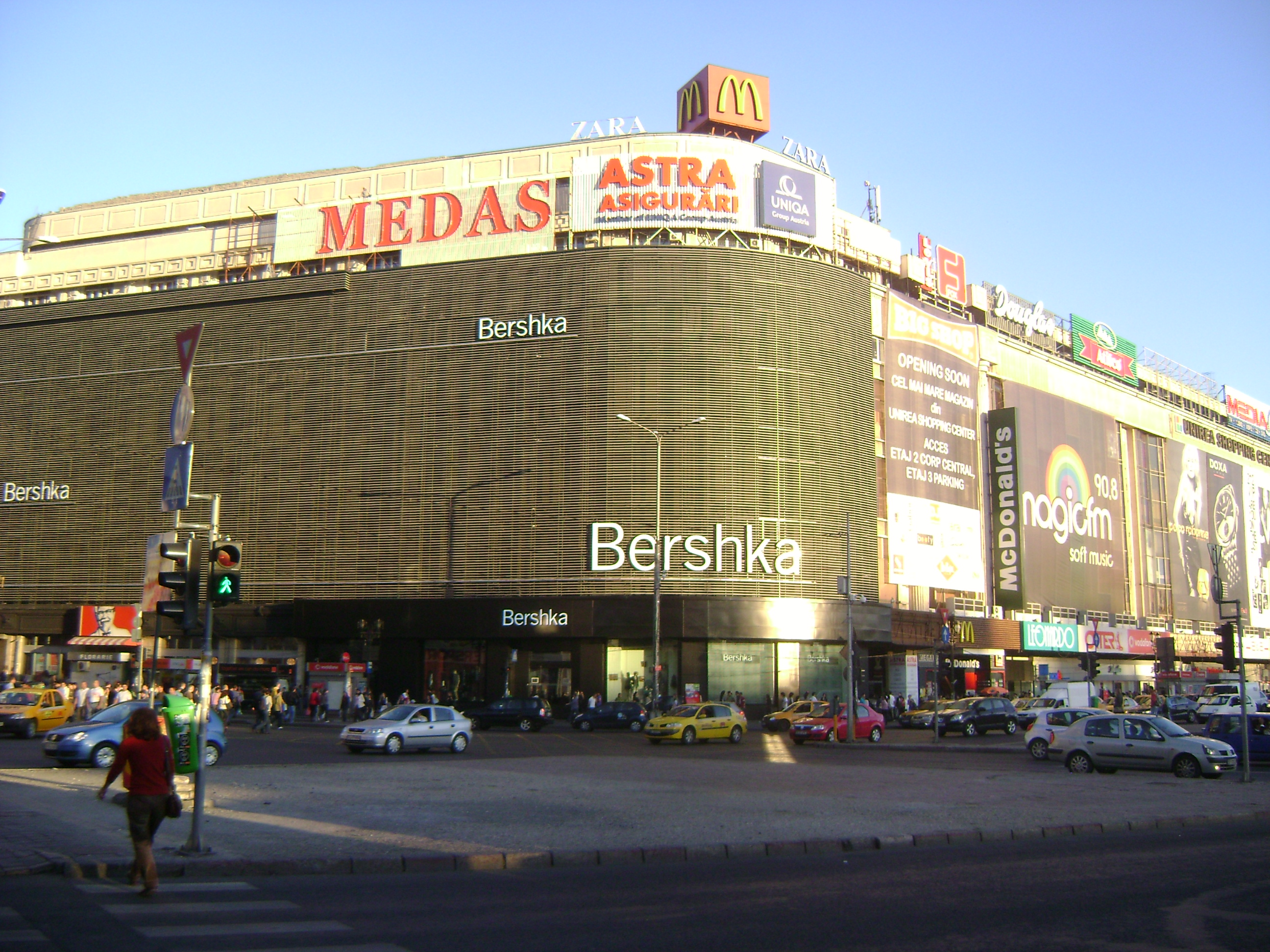 The Bershka logo as seen on the facade of Unirea Shopping Center - Bucharest 2010